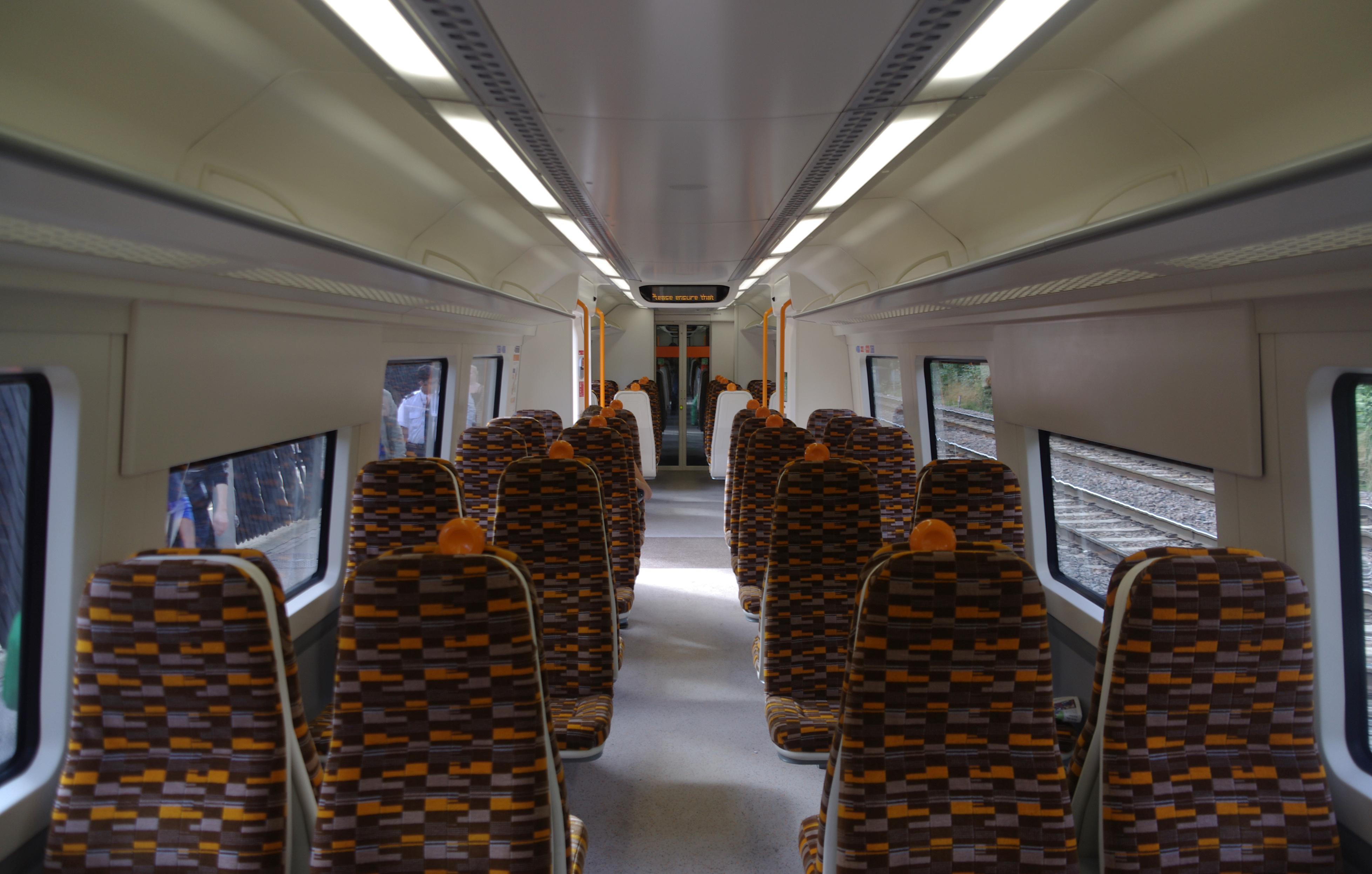 The interior of London Overground Turbostar DMU 172005 at Gospel Oak.